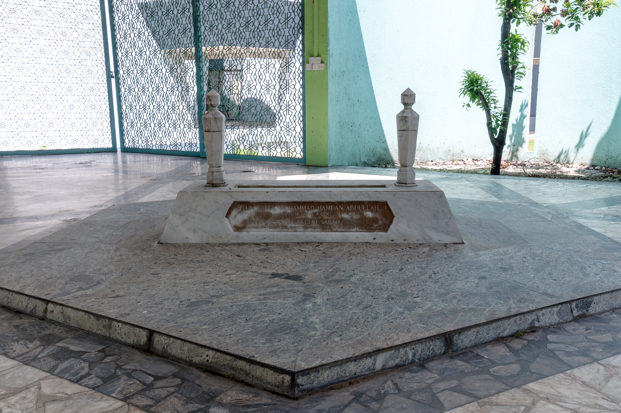 Kota Kinabalu, Sabah: Tomb of TYT Mohammad Hamdan Abdullah in the Sabah State Mausoleum at the northwest corner of Sabah State Mosque